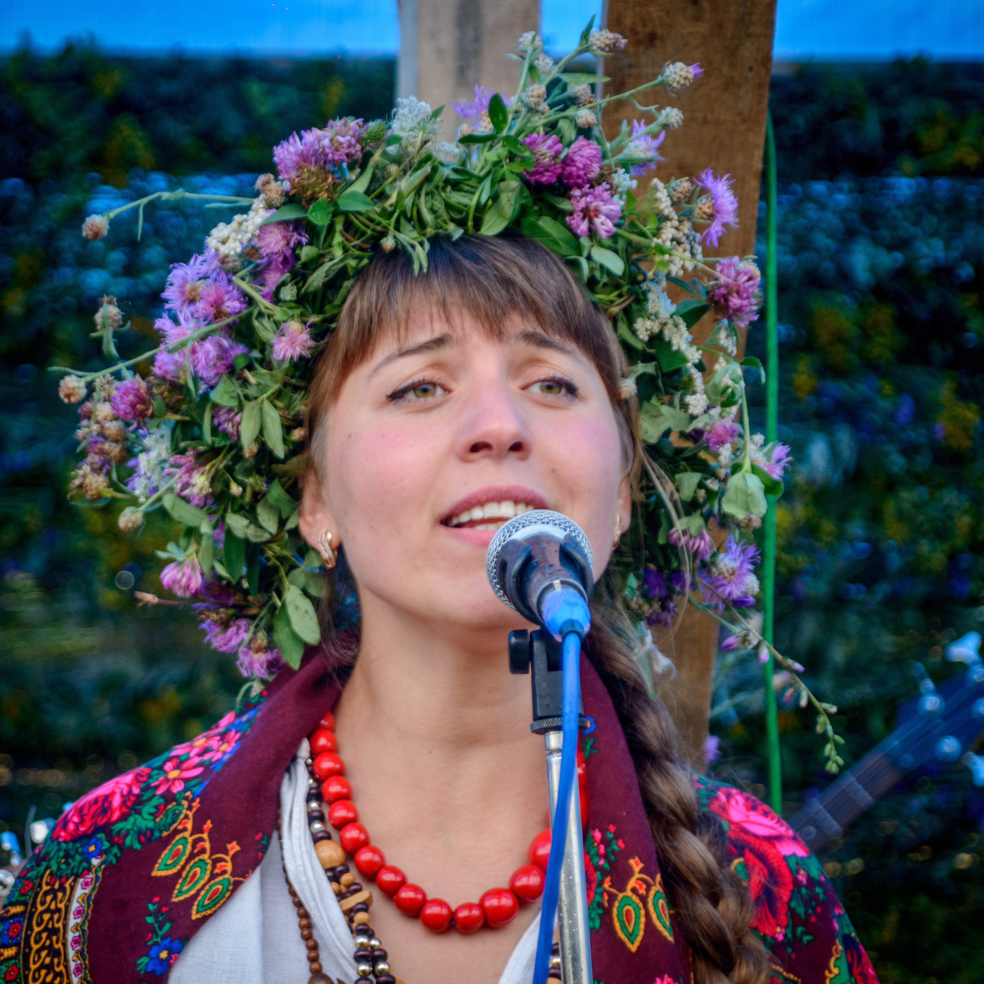 Wikiexpedition to Fest "Borschyk in clay pot". Poltava region